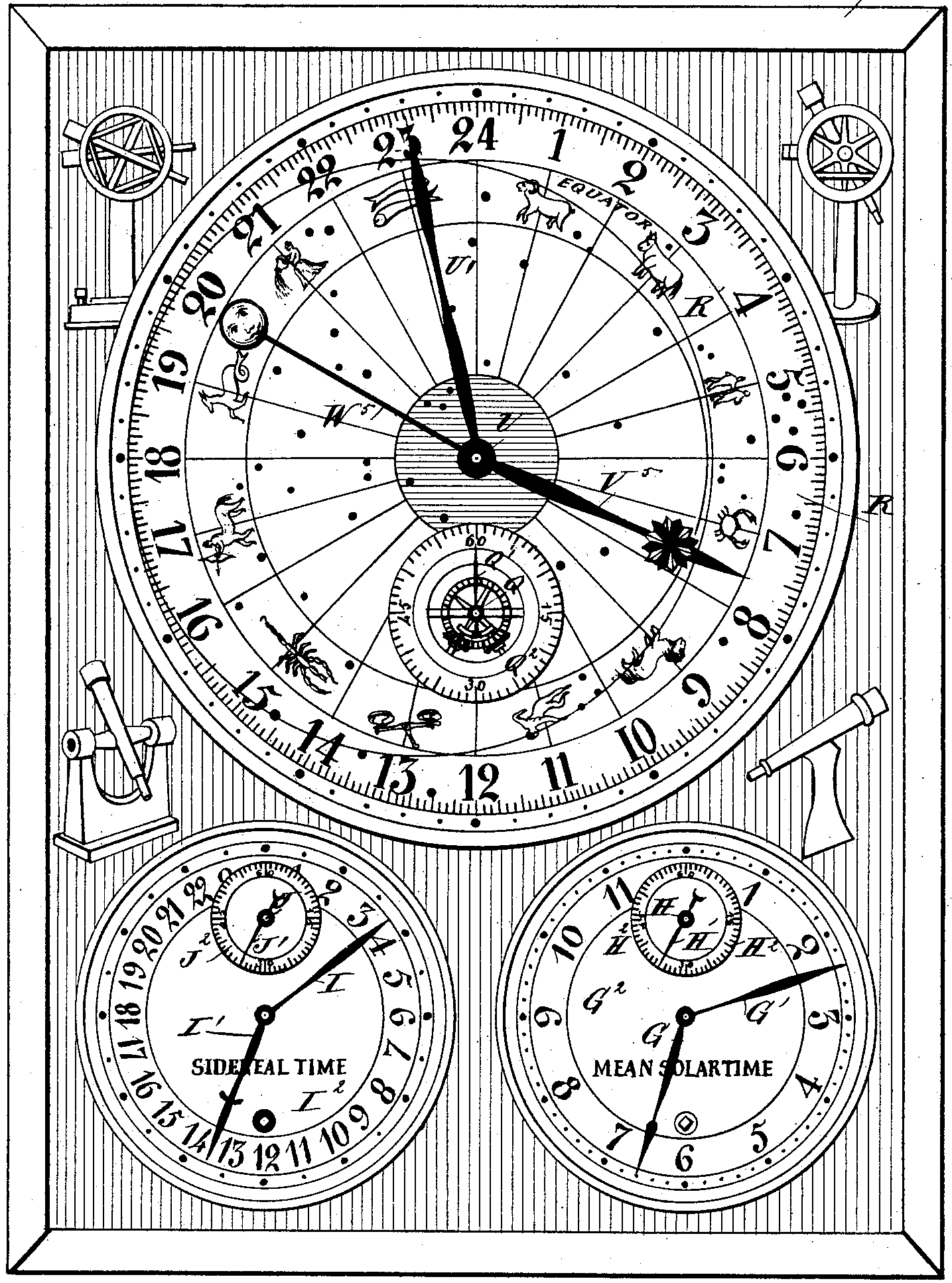 Astronomical clock designed by Hezekiah Conant. The top dial show the right ascension of the Sun and Moon. The two lower dials show mean solar and mean sidereal time.